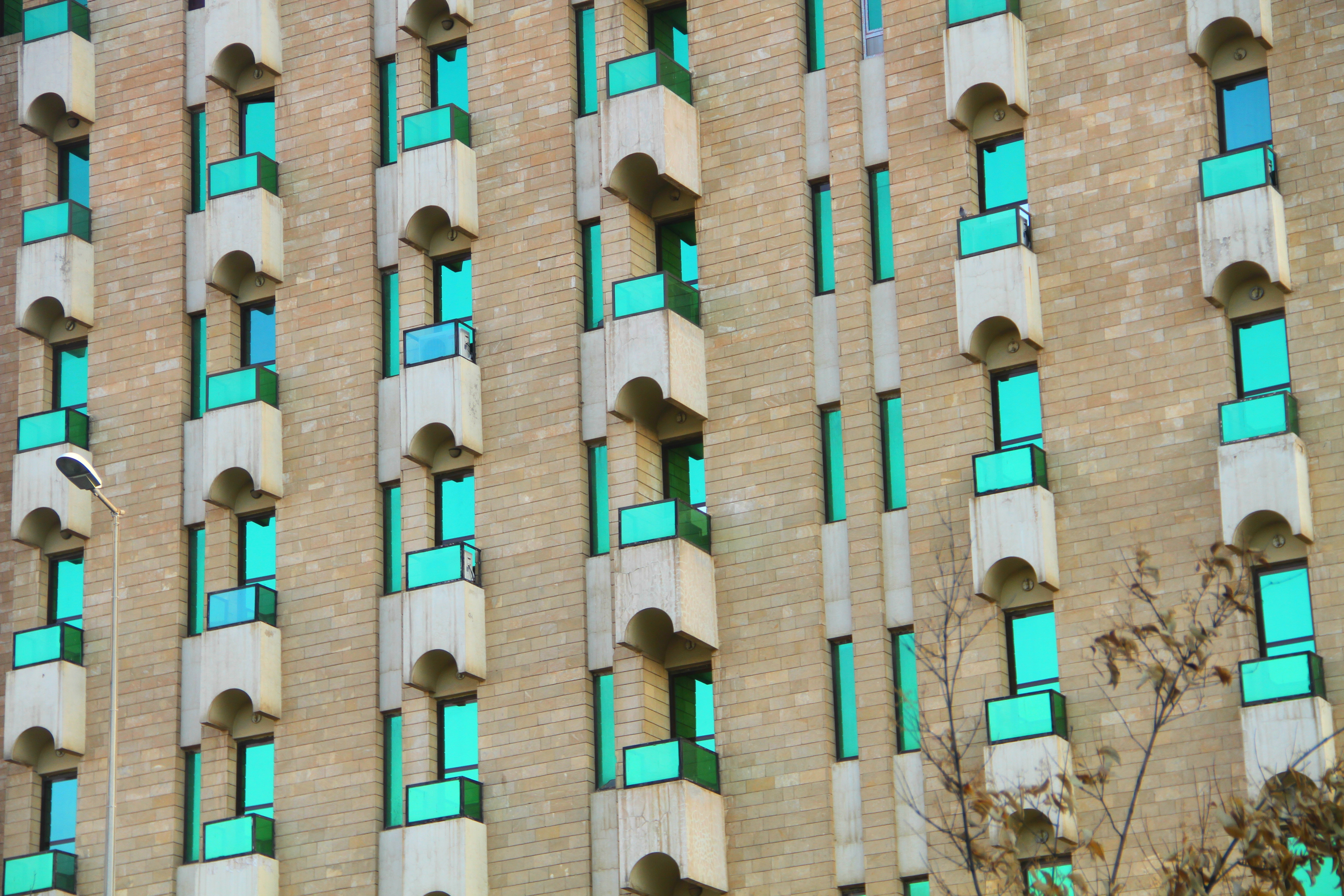 Sulaimani Palace in Sulaymaniyah,Kurdistan, Iraq